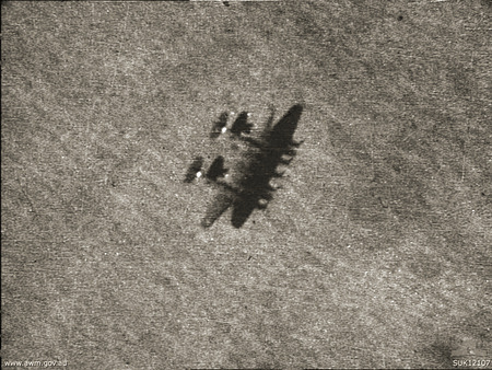 An Allied reconnaissance photo showing a German Heinkel He 111Z aircraft taking off at Regensburg-Obertraubling (Germany), in May 1944. Consisting of two He 111 aircraft joined together by a common centre-section, these aircraft were developed to tow Messerschmitt Me 321 gliders. All five engines are clearly indicated by shadow.